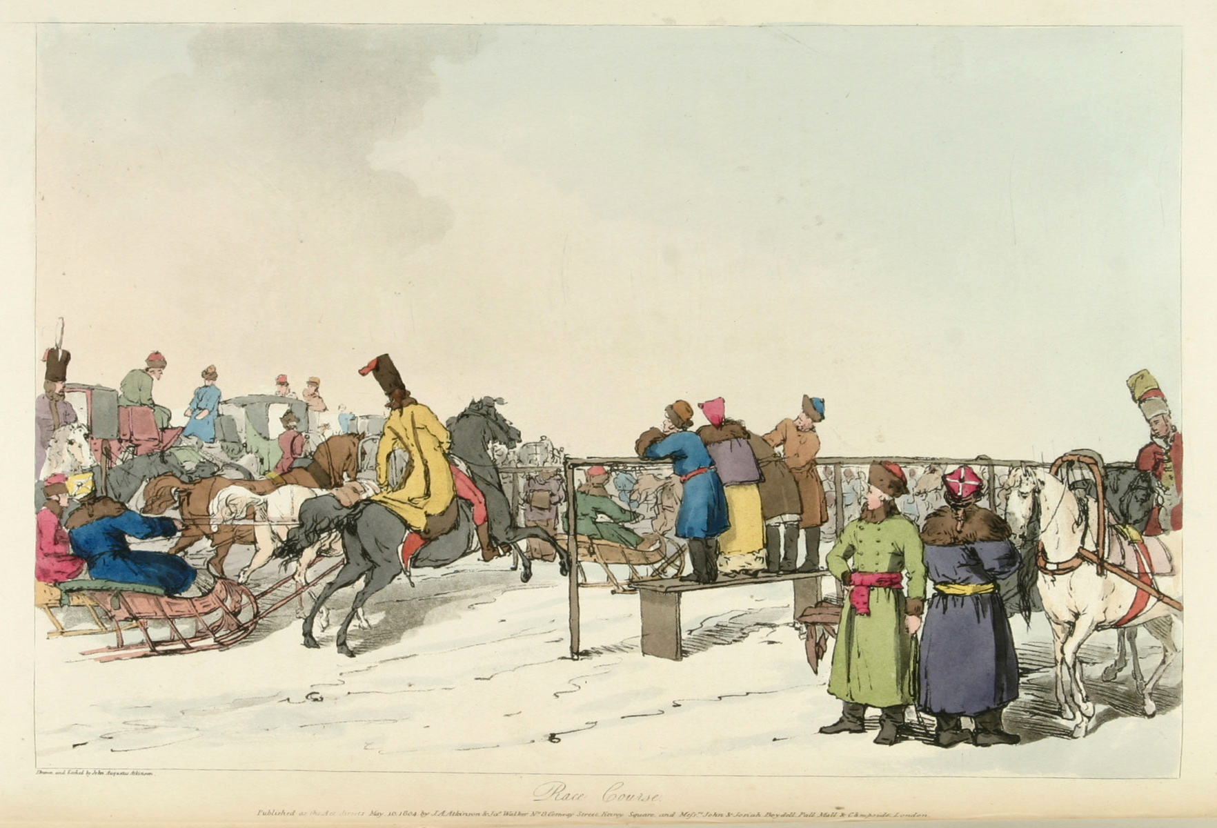 J. A. Atkinson. Race course. 1804